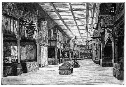 Le Bazar de la Charité avant l'incendie. Extrait du Supplément illustré du Petit Journal, 16 mai 1897, p. 5.